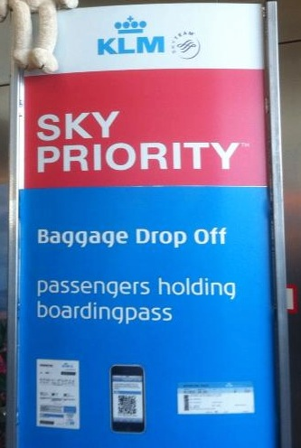 Dutch error in English "boardingpass" instead of "boarding pass"; sign at Schiphol Airport, Amsterdam, May 2013